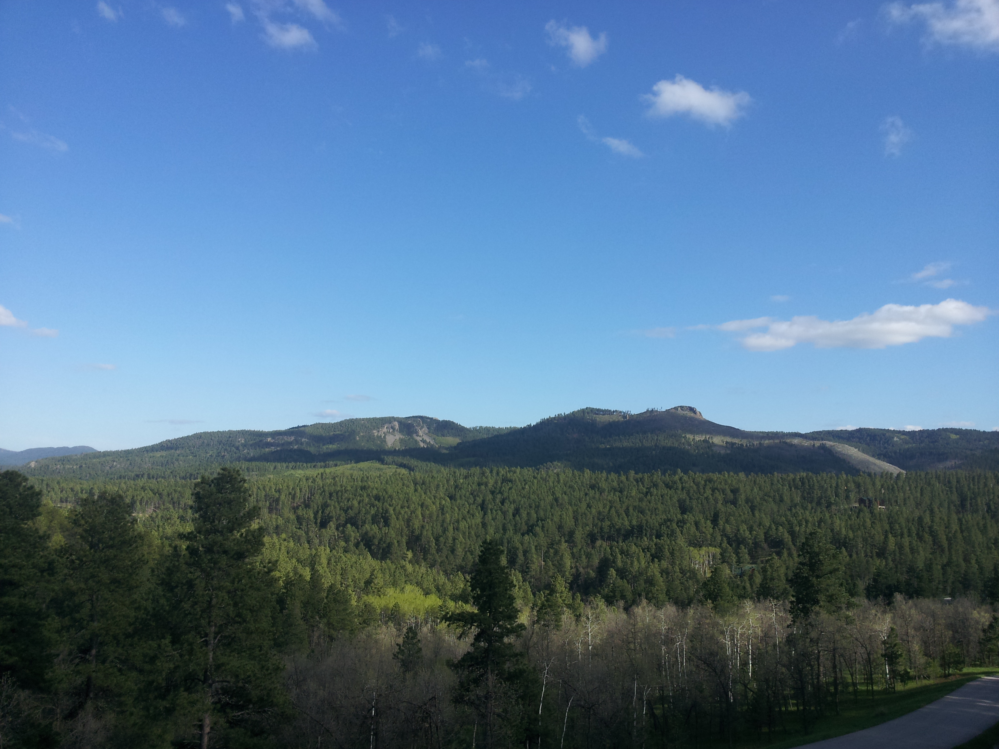 What I woke up to one morning in the Black Hills outside Deadwood, South Dakota. Beautiful view. I took this picture to share the beauty of God's creation.